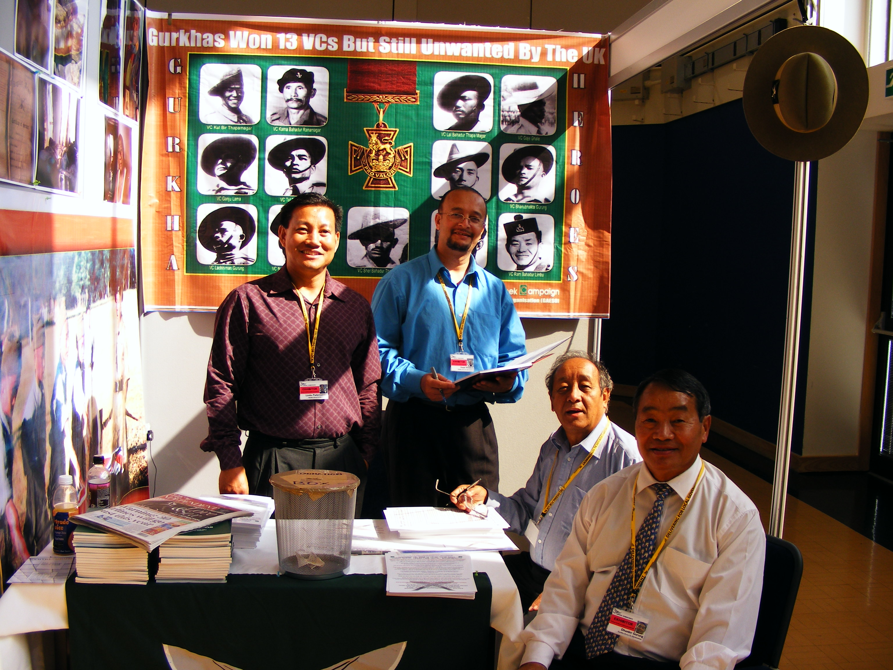 Gurkha Justice Campaigners at Liberal Democrat Autumn Conference 2008.